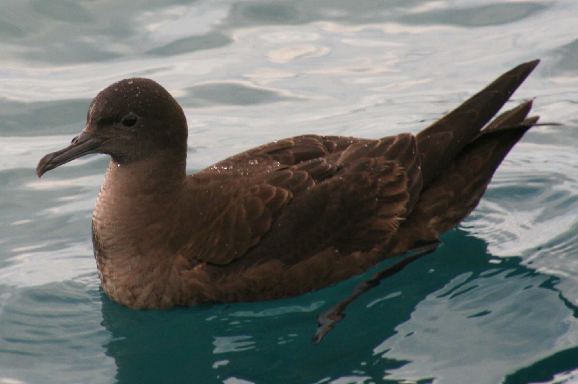 Sooty Shearwater (Puffinus griseus) off Kaikoura, New Zealand